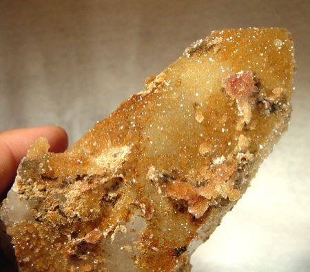 Hubeite, Inesite, Quartz Locality: Fengjiashan Mine (Daye Copper mine), Edong Mining District, Daye County, Huangshi Prefecture, Hubei Province, China (Locality at ) A sparkly coating of hubeite, apophyllite, and secondary quartz microcrystals makes this large quartz point really spectacular! The photos do no accurately show how sparkly and just darned beautiful this specimen is. A few inesite clusters add an extra accent. NOT your average quartz crystal! The sparkles cover 4 faces of the 6-sided quartz point. The other two faces are normal, glassy quartz as youd expect. 14 x 6 x 5 cm